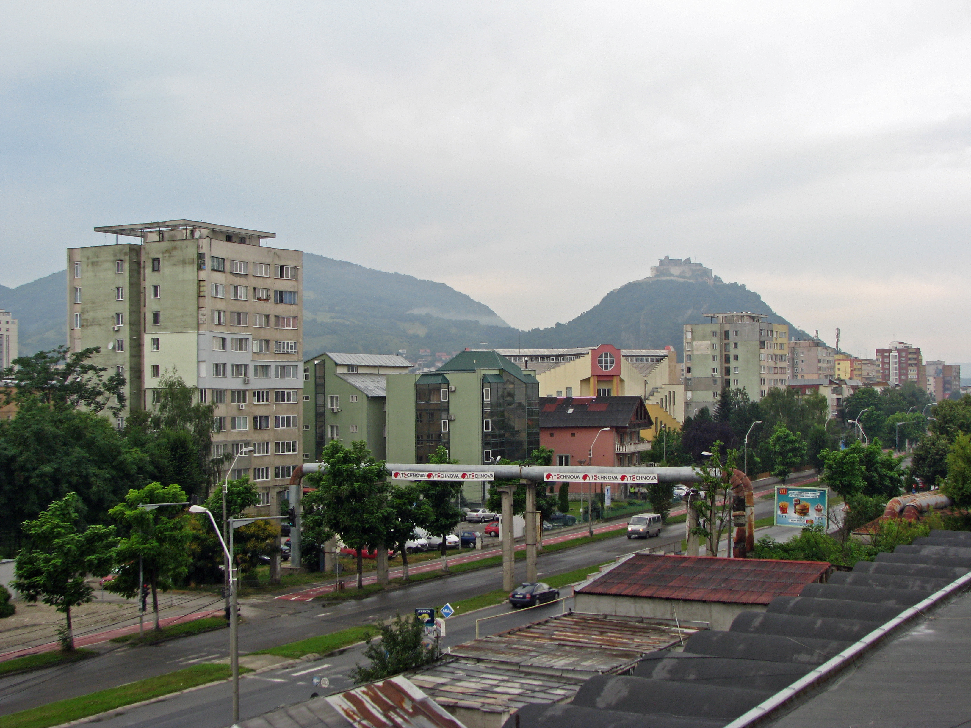 Deva town, Zarandului street